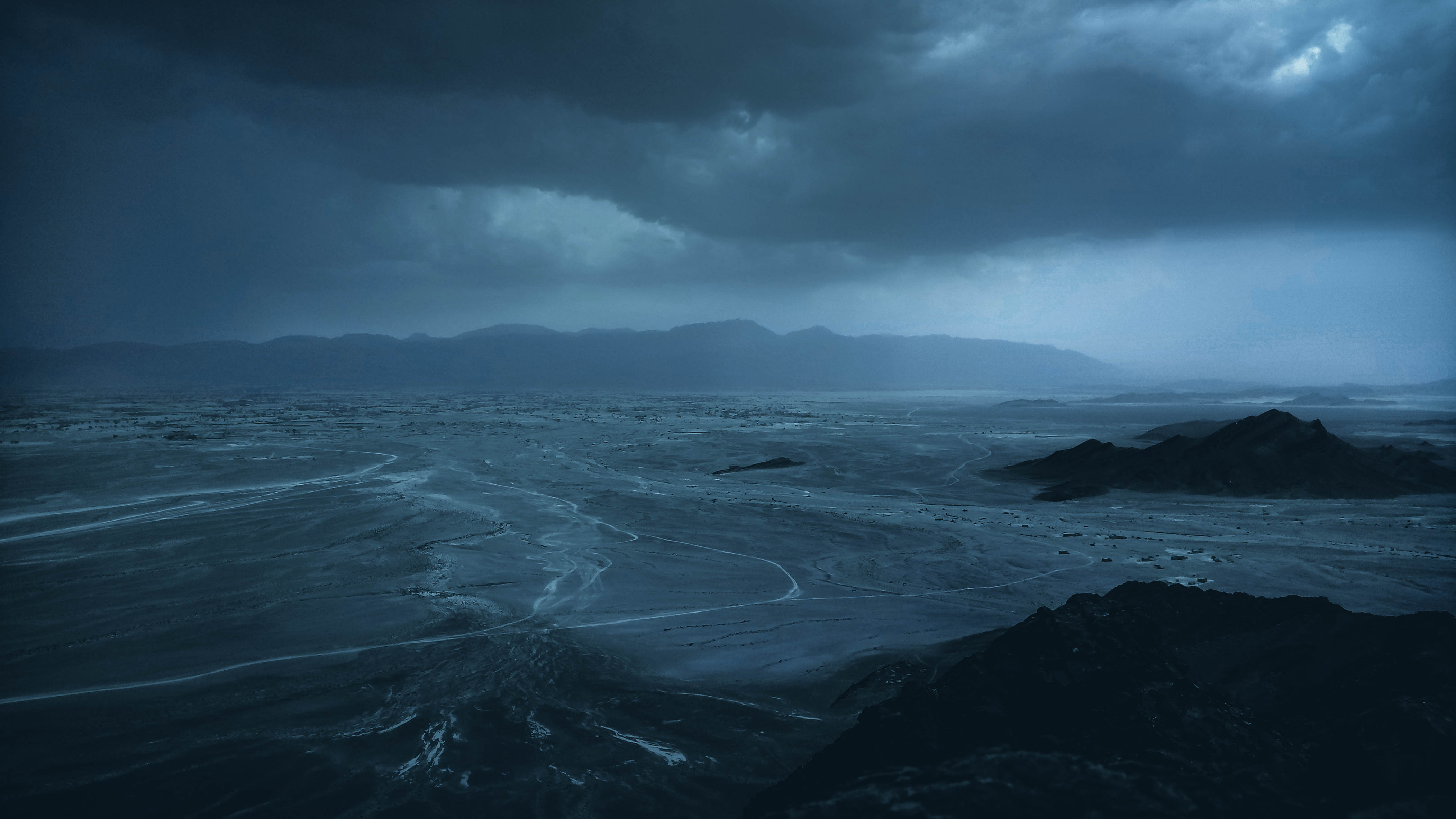 a Arial photo of gresha khuzdar, Shashan mountain in front image taken from the top of Siah mountain on the middle right is gari mountain